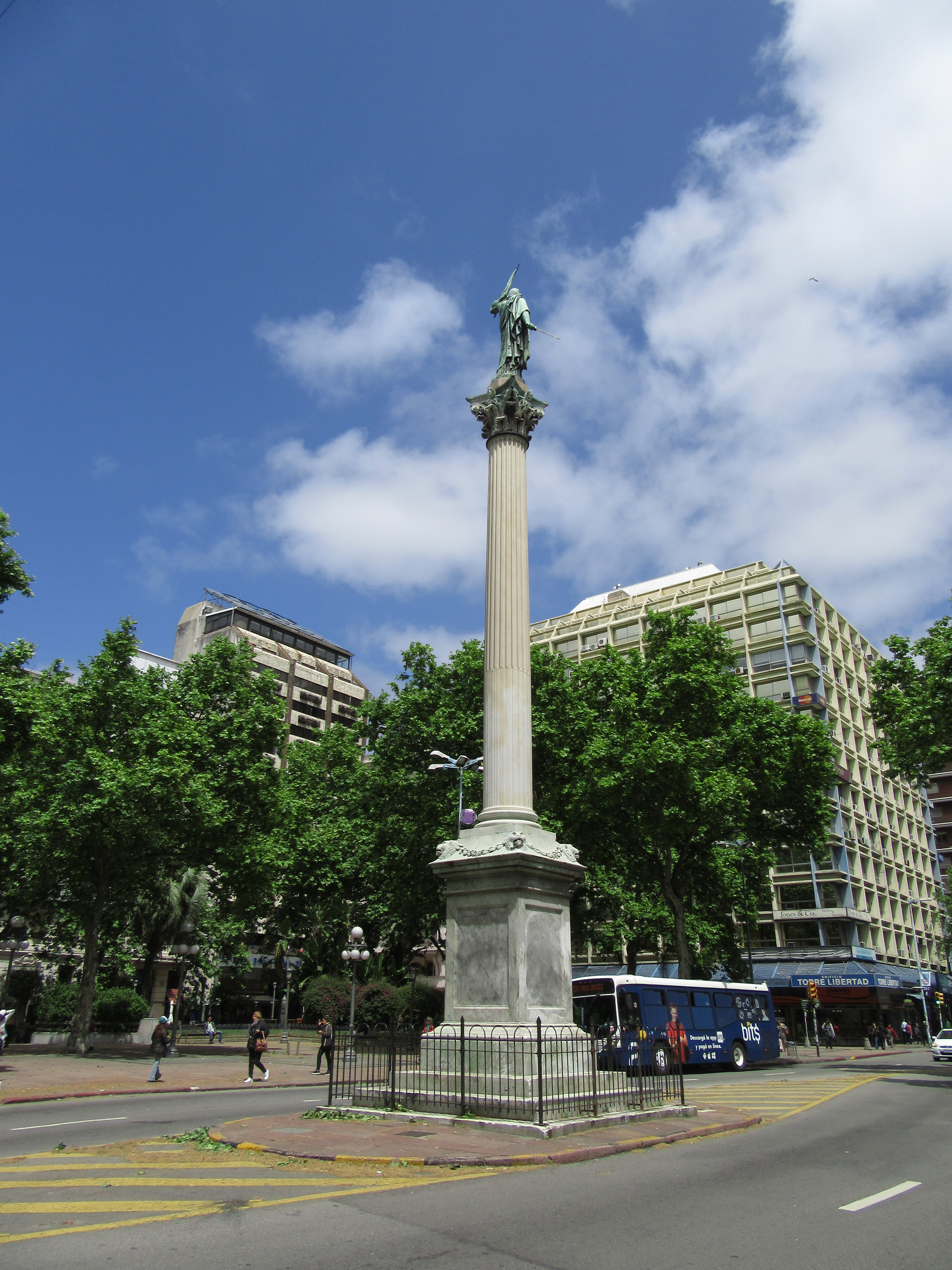 Montevideo